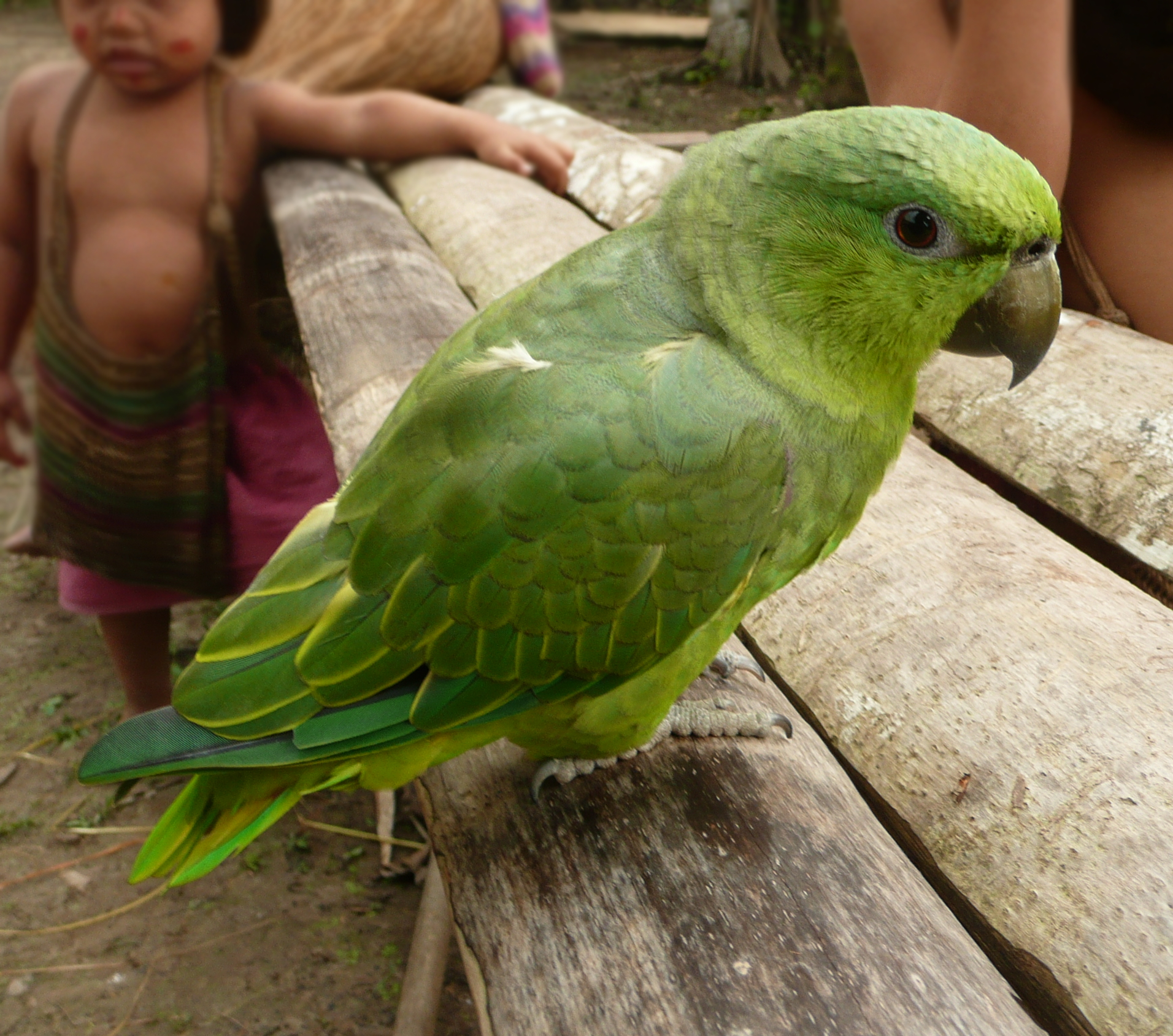 Peruvian Indians with Short-tailed Parrot (Graydidascalus brachyurus).